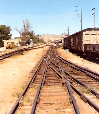 In 1970, the line from Port Pirie to Broken Hill was converted to "standard gauge", resulting in all three gauges used in Australia meeting in Gladstone, South Australia railway yards. At the time, there were only three places on the planet where this happened. In the late 1980s, the broad and narrow gauge lines were closed, leaving Gladstone as purely standard gauge. This photo was taken by me (User:Pdfpdf) in March 1986 using a Pentax MX with 50mm lens and 100 ASA Kodak 35mm colour film, and printed on Kodak paper. Obviously, over the 25 years between printing and scanning, the colours have faded.